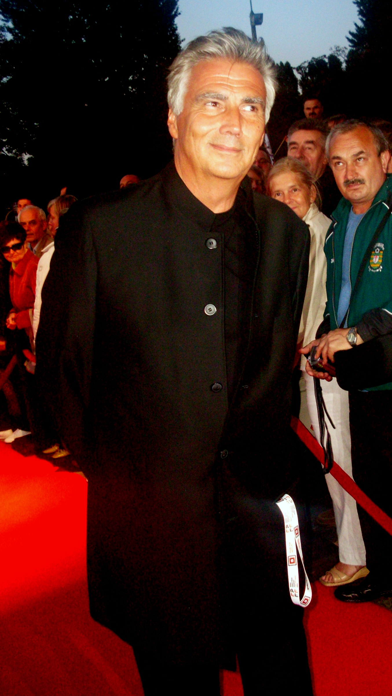 Polish film director Krzysztof Krauze at opening of the XXXIV Polish Film Festival in Gdynia 2009.